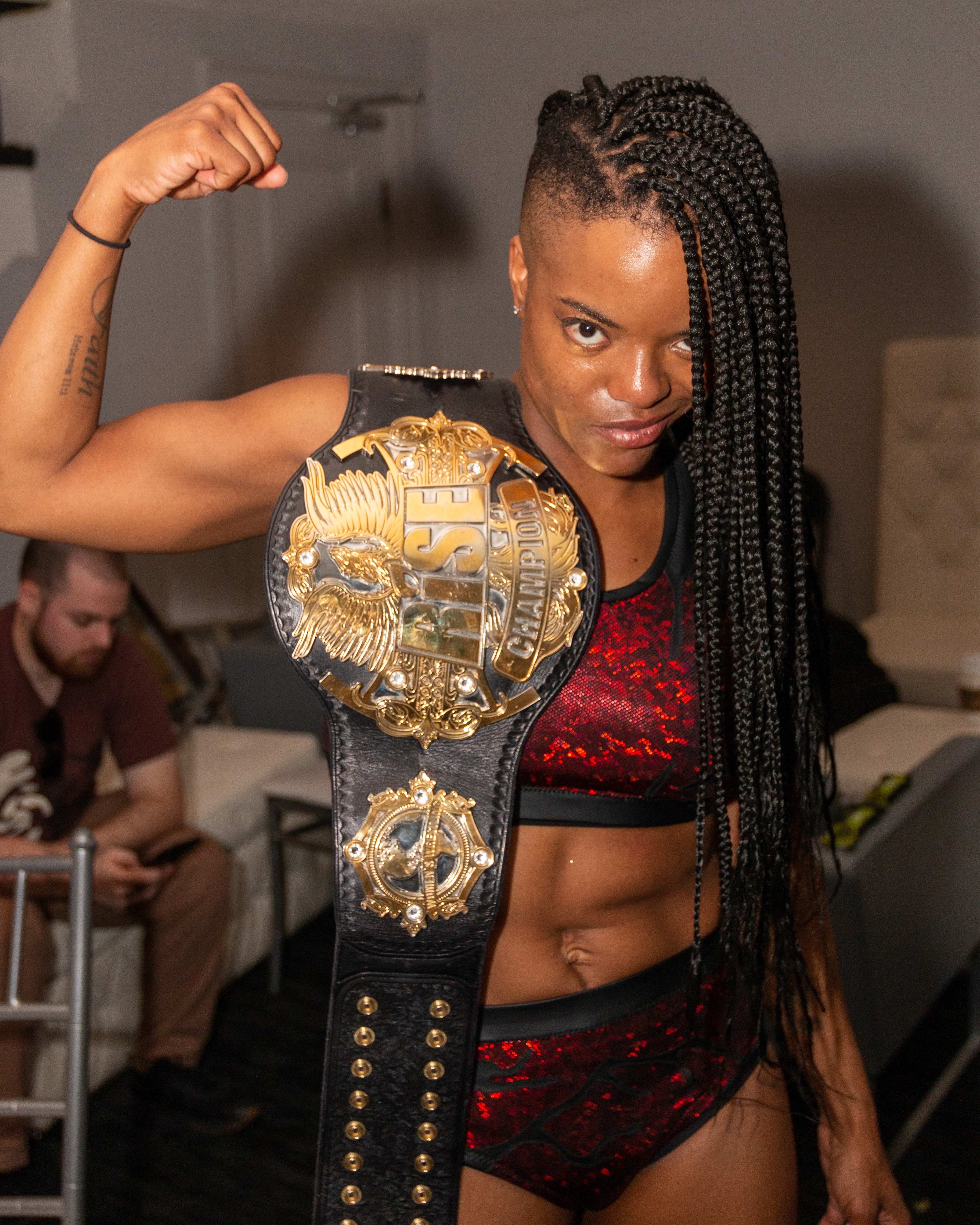 Independent wrestler Aerial Monroe posing with the Phoenix of Rise Championship at Smash Wrestling's The Summit show in Toronto, ON